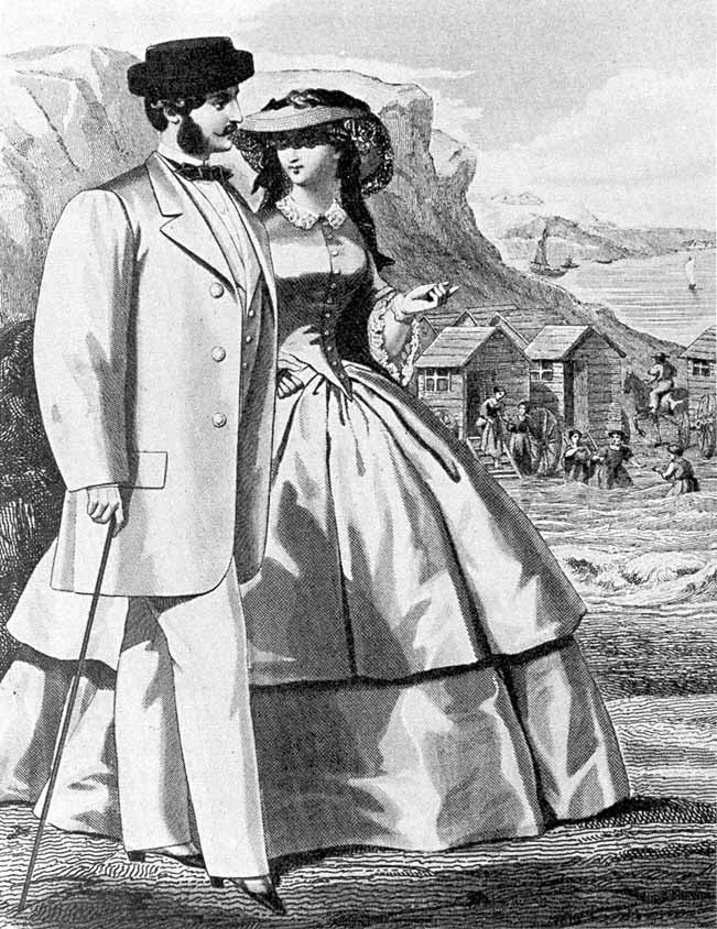 1859 fashion plate from the "Gazette of Fashion", showing both male and female daywear, with sea bathing scene in the background (including bathing machines). The man is wearing a "sack coat".